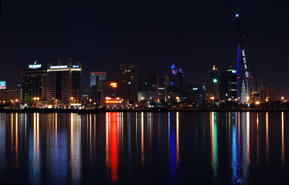 Manama City at night